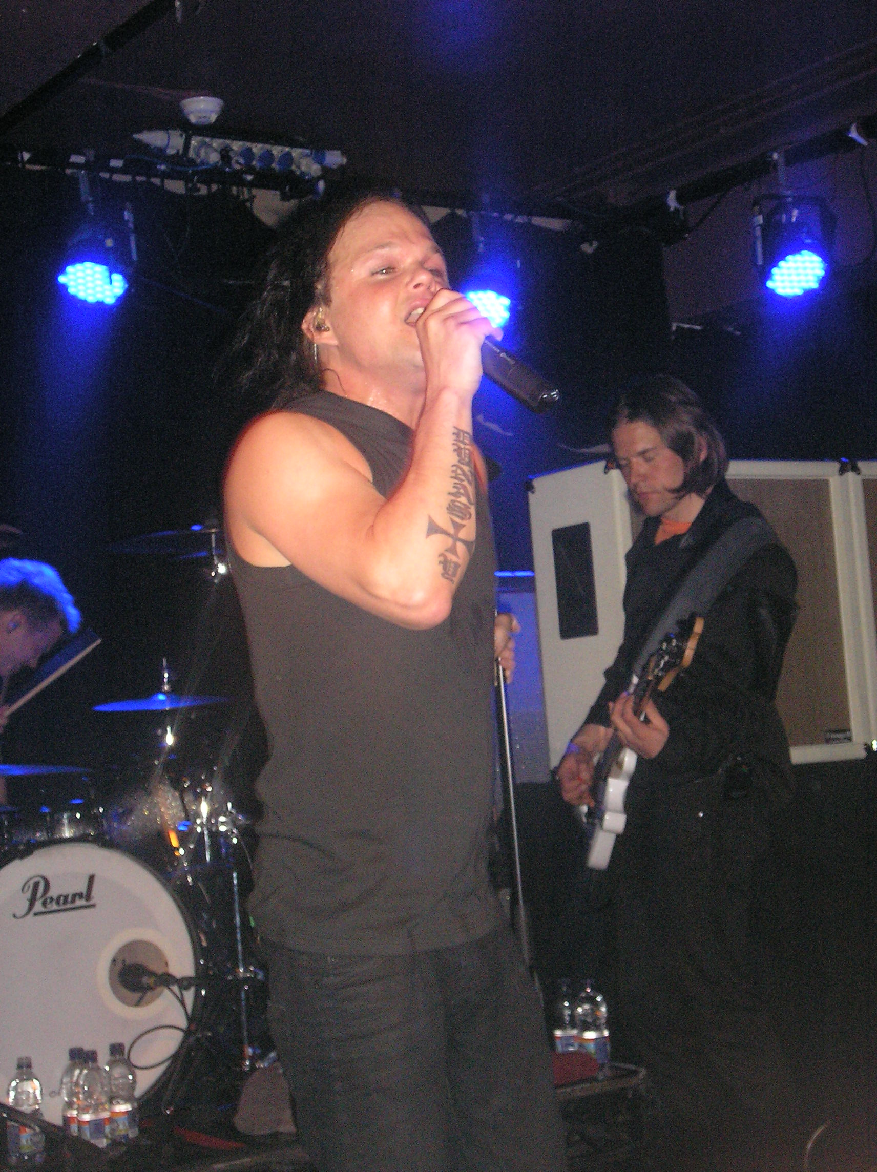 image of Lauri Ylönen From The Rasmus Concert In Manchester